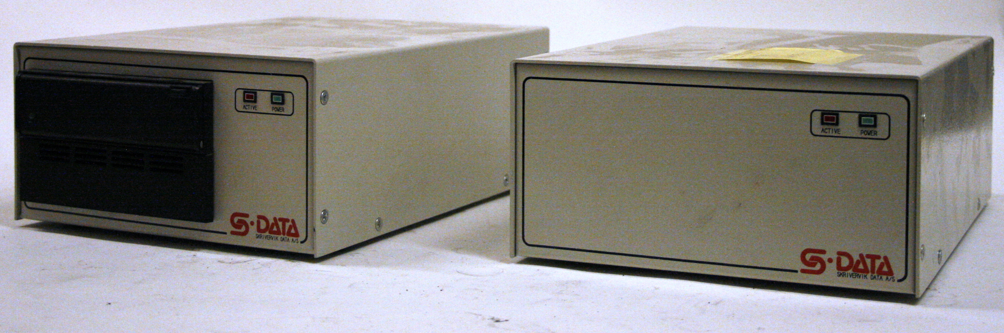 SCSI disk og QIC kassett stasjon fra Skrivervik Data, ca. 1990. Fra Vitenskapsmuseet i Trondheim.